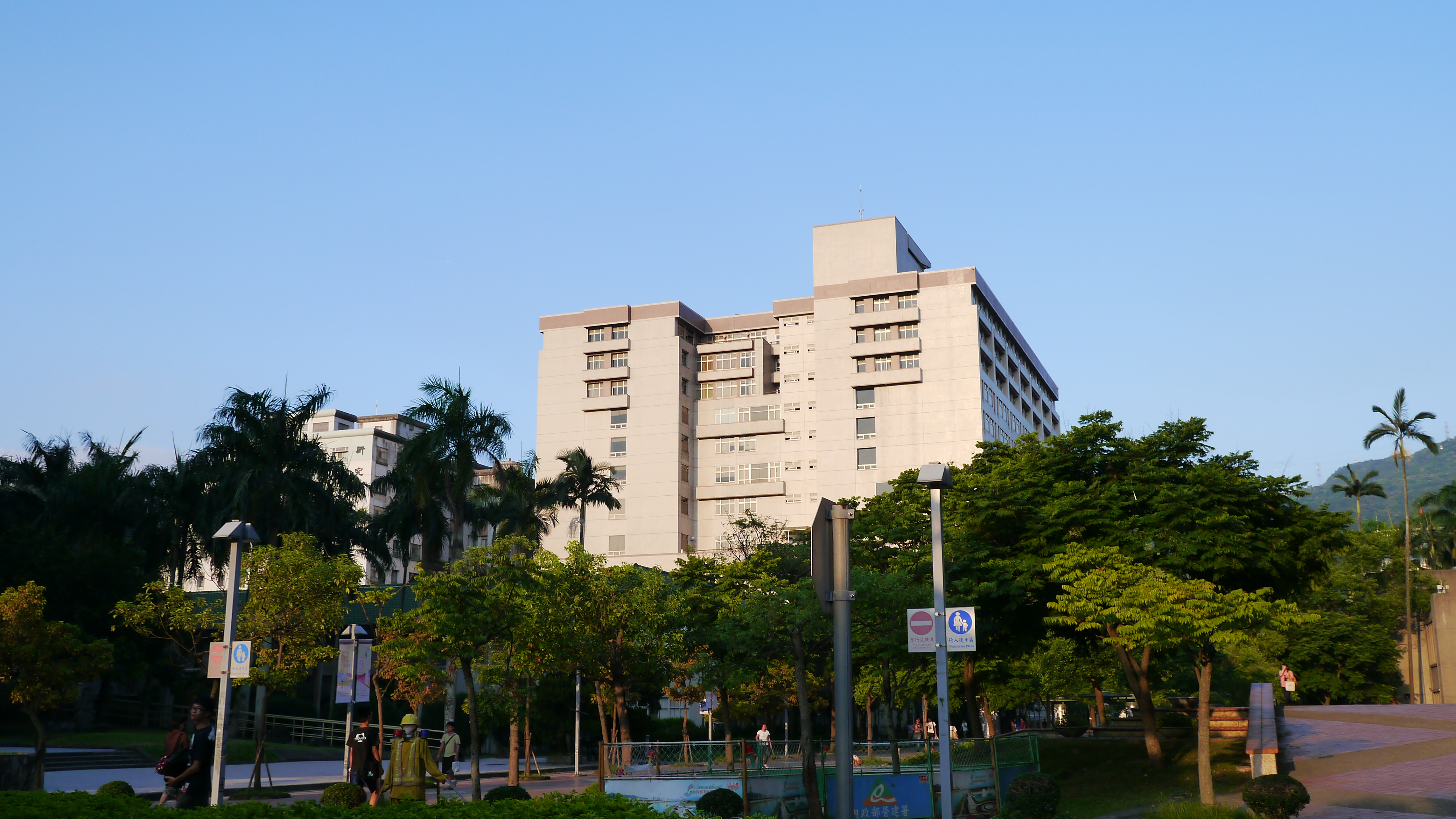 政治大學商學院